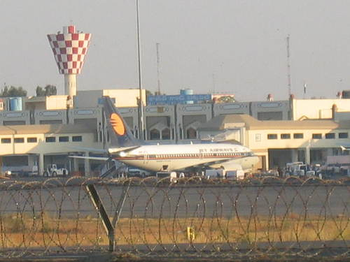 This image shows a partial view of the airport at Begumpet, Hyderabad Hyderabad